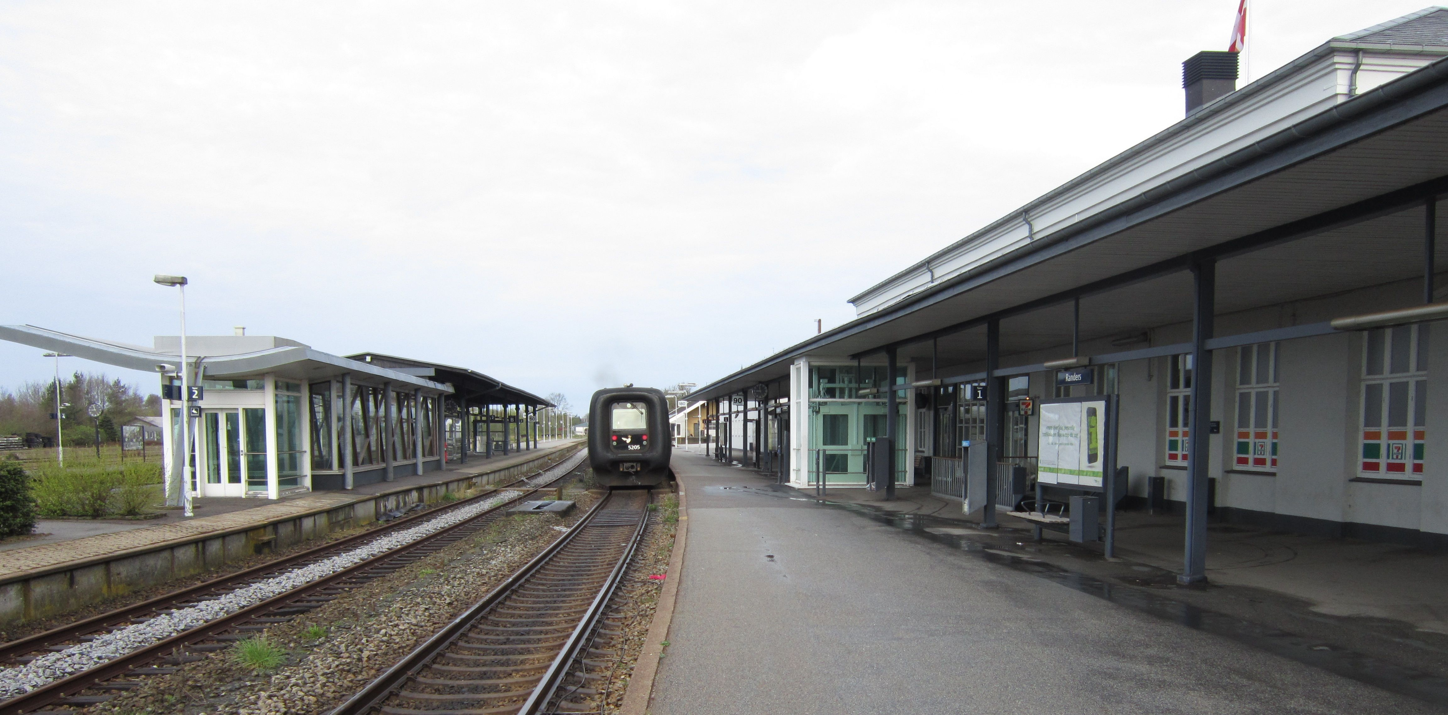 Randers_station